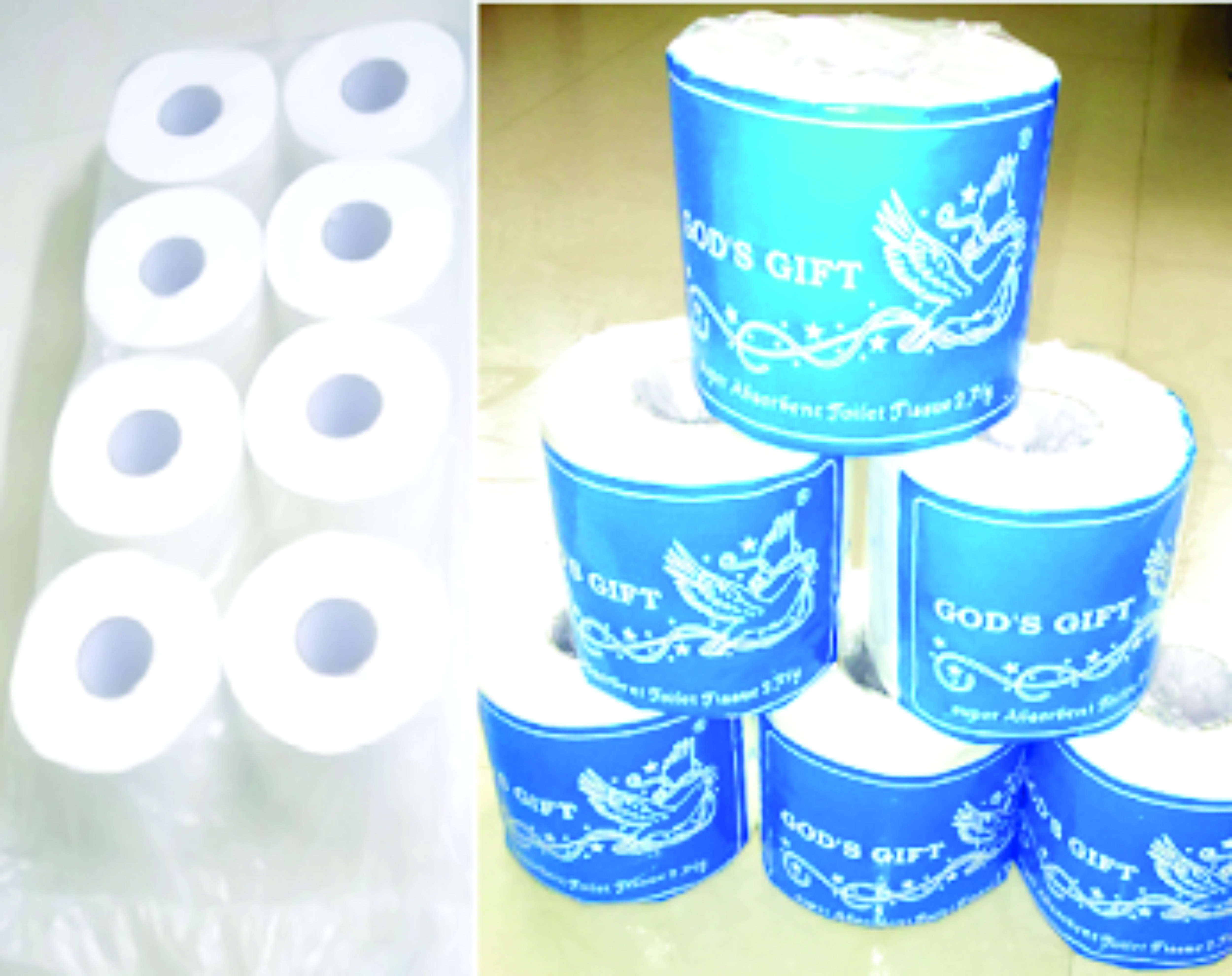 Toilet roll 9 cm by 10 cm 15 Gsm 2 Ply 35 Meter 350 Sheet Pre Roll in a Box 175 No's